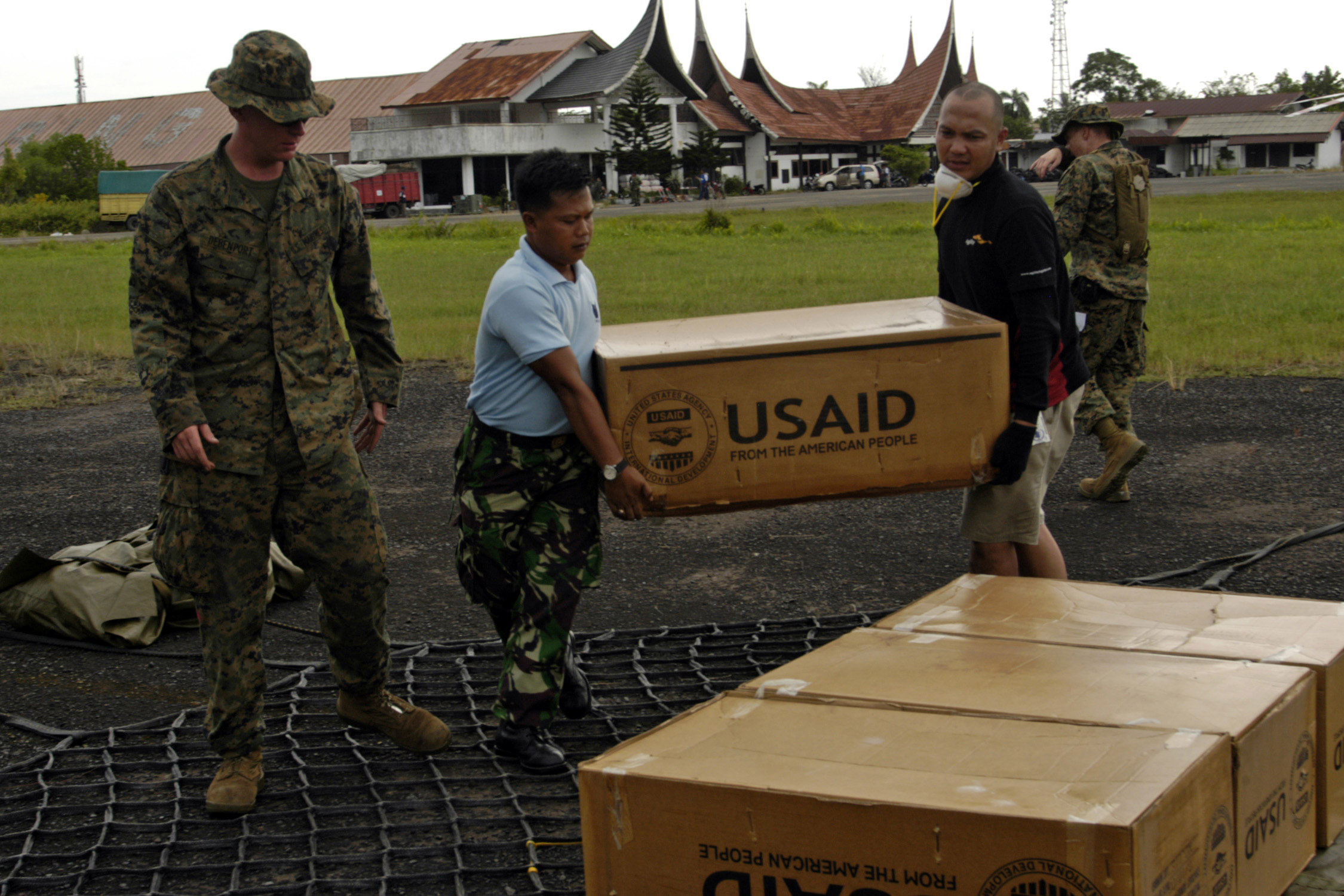 PADANG, Indonesia (Oct. 12, 2009) Marines assigned to Combat Logistics Battalion (CLB) 31 of the 31st Marine Expeditionary Unit (31st MEU), Indonesian service members, and Red Cross employees load a cargo net of supplies from The United States Agency for International Development (USAID). The supplies are to be airlifted to remote areas of West Sumatra, Indonesia by CH-53E Super Stallion helicopters from Marine Medium Helicopter Squadron (HMM) 265 (Reinforced). Amphibious Force U.S. 7th Fleet is coordinating U.S. military assistance to victims of the recent earthquakes in West Sumatra, at the request of the Indonesian government. (U.S. Navy photo by Ensign Colleen R. Praxmarer/Released)